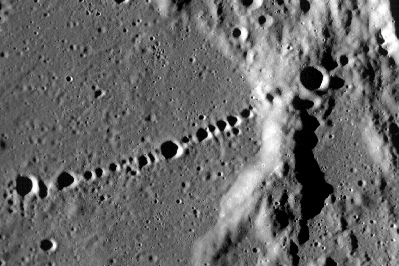 Catena Davy — crater chain on the Moon, on the edge of Mare Nubium near crater Davy. Photo by Lunar Reconnaissance Orbiter, made with Wide Angle Camera on 7 January 2010 from altitude 41 km. Sun elevation is 8.3°. Width of the photo is 50 km, north is approximately up.